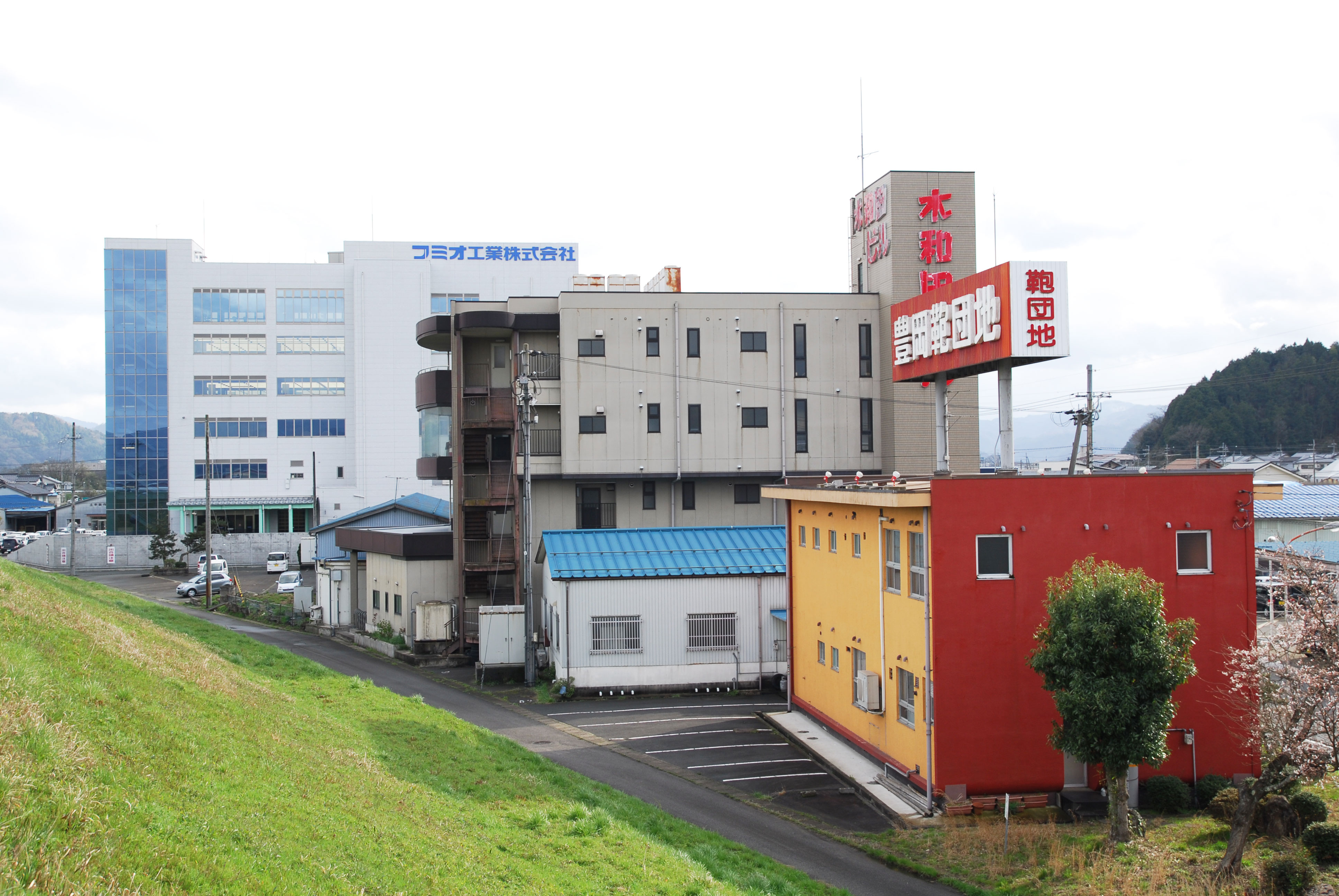 Toyooka kaban Danchi